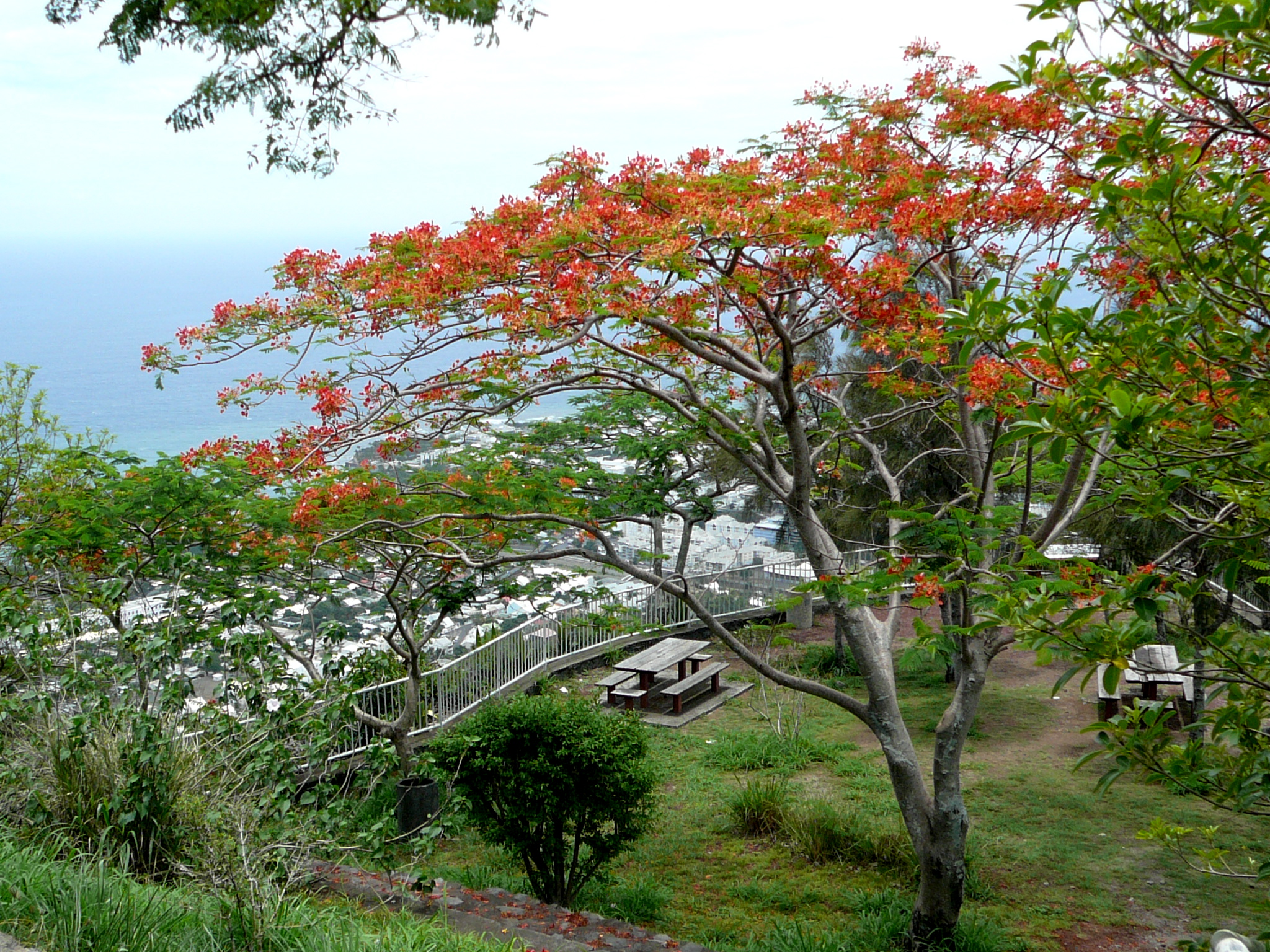 Overview on St Denis from La Montagne